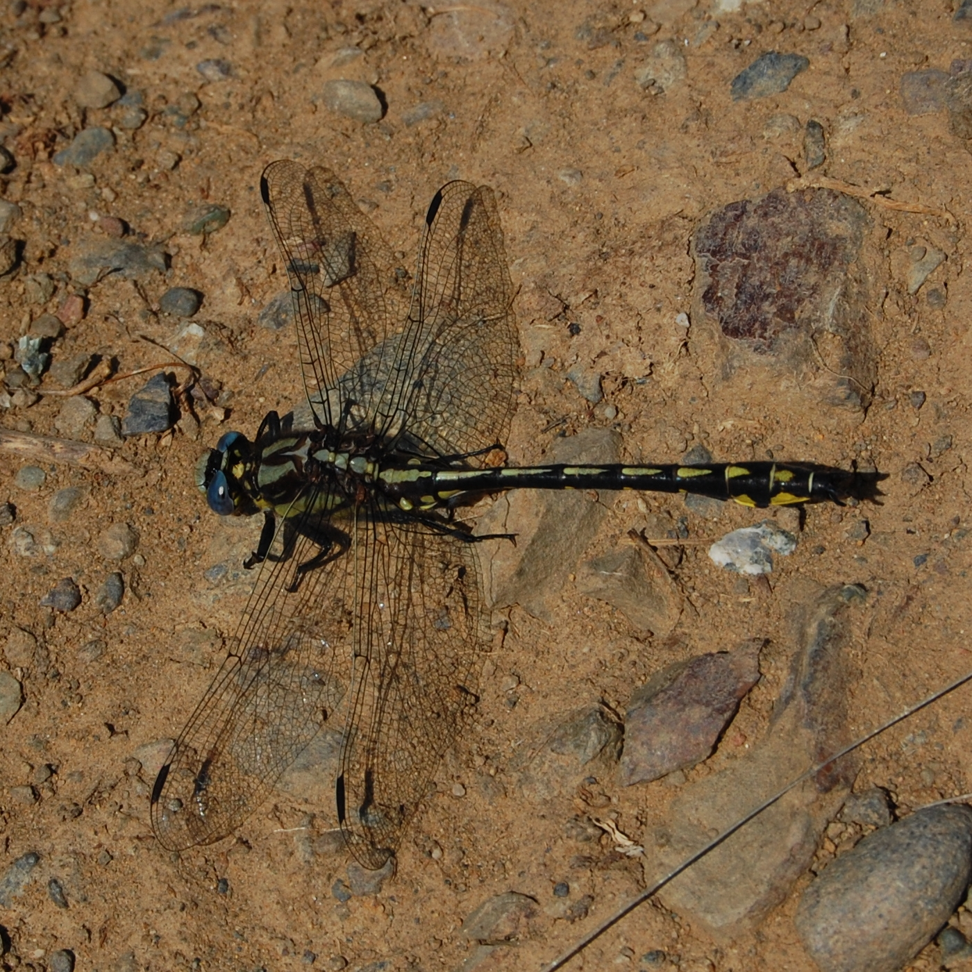 Pacific Clubtail. Male